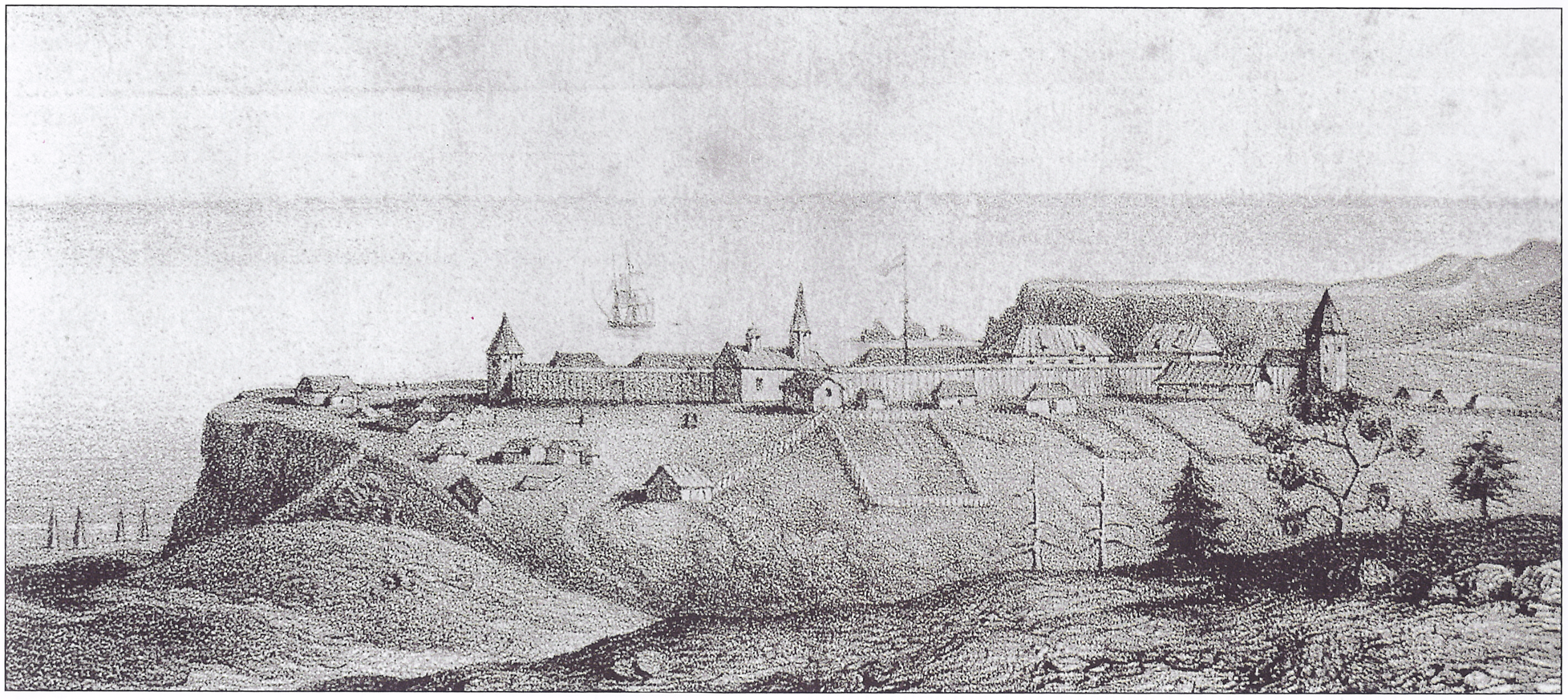 View of Fort Ross by A. B. Duhaut-Cilly (1828)